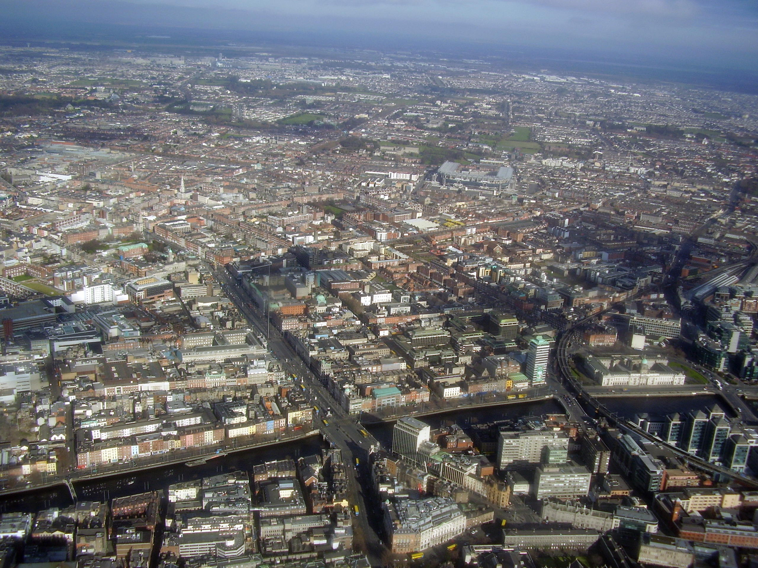 Image of Dublin city